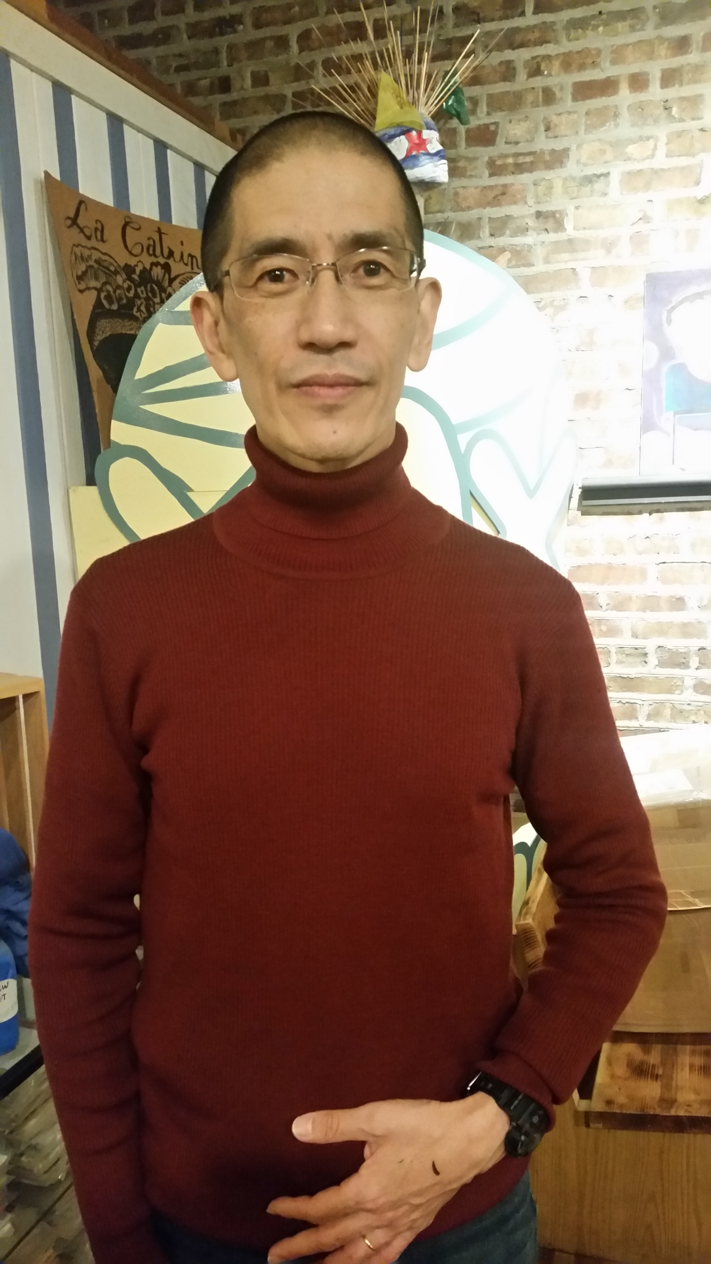 Akito Tsuda in 2017 at La Catrina Cafe in Chicago, IL at a solo exhibition of his work titled Pilsen Days